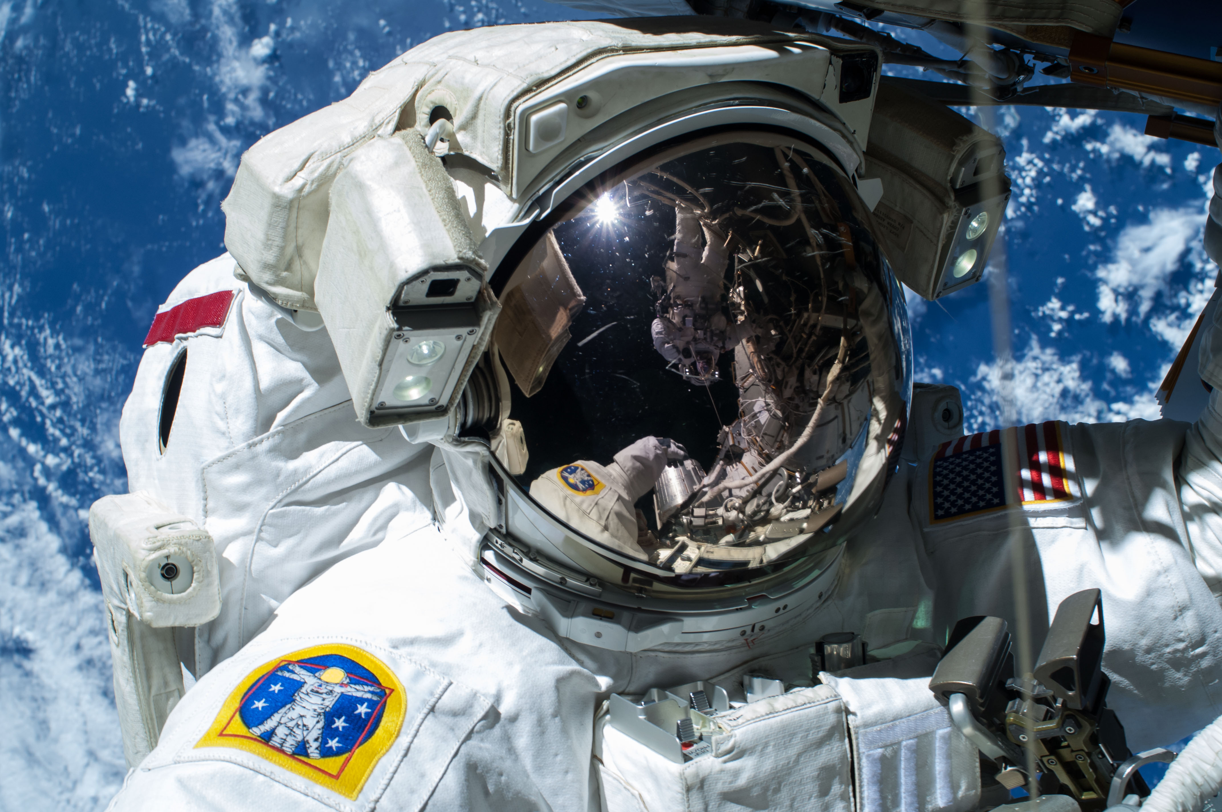 NASA astronaut Barry "Butch" Wilmore, Commander of Expedition 42 on Feb, 21, 2015 is caught by the camera as the Earth's surface passes by in the background. Wilmore and fellow astronaut Terry Virts (seen in the visor's reflection) completed a 6-hour, 41-minute spacewalk routing more than 300 feet of cable as part of a reconfiguration of the International Space Station to enable U.S. commercial crew vehicles under development to dock to the space station in the coming years.